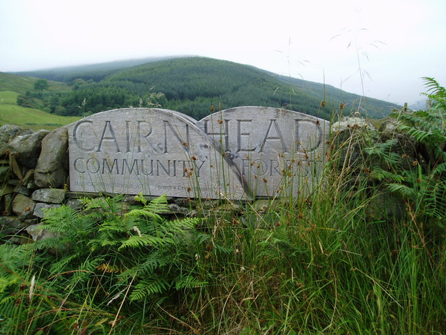 Cairnhead Community Forest Sign.